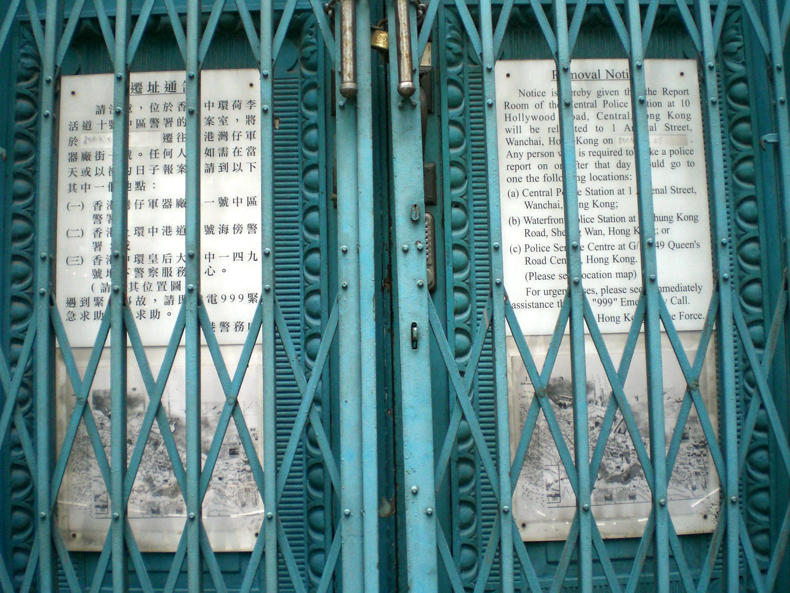 香港zh:中環荷李活道舊中區警署